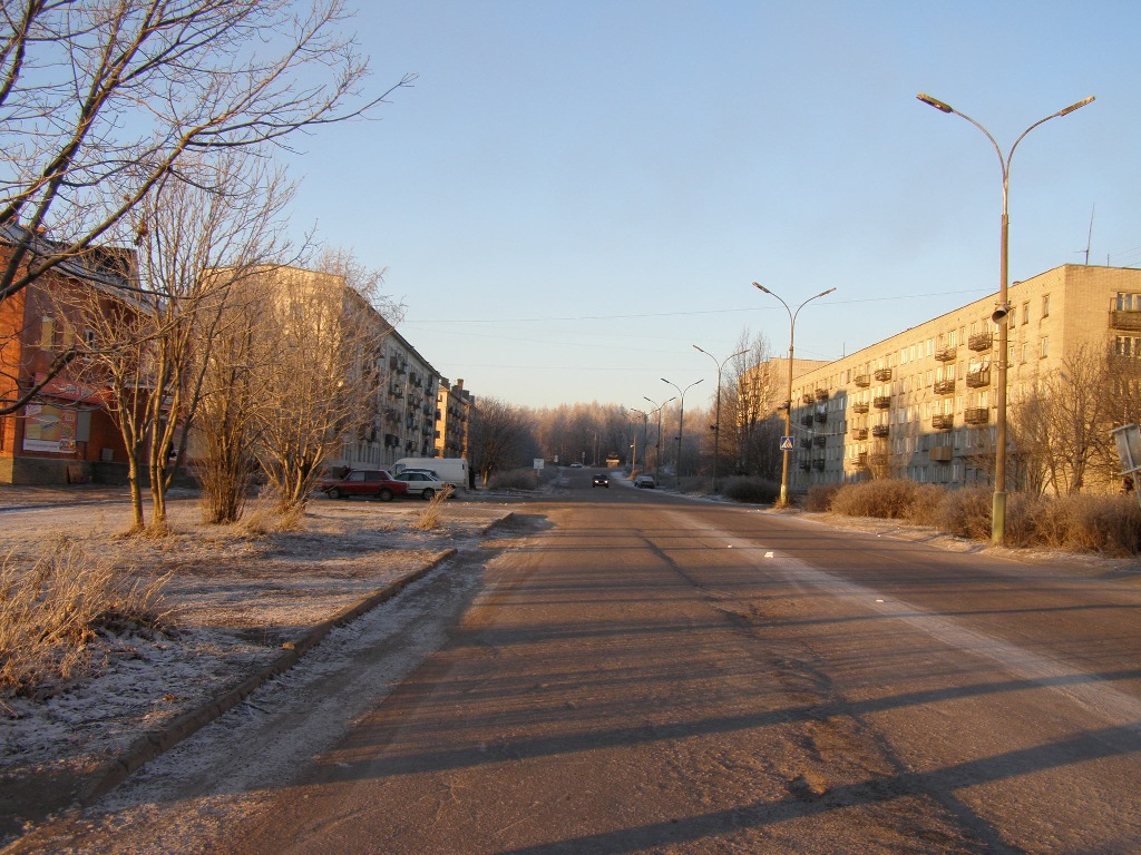 Pitkyaranta